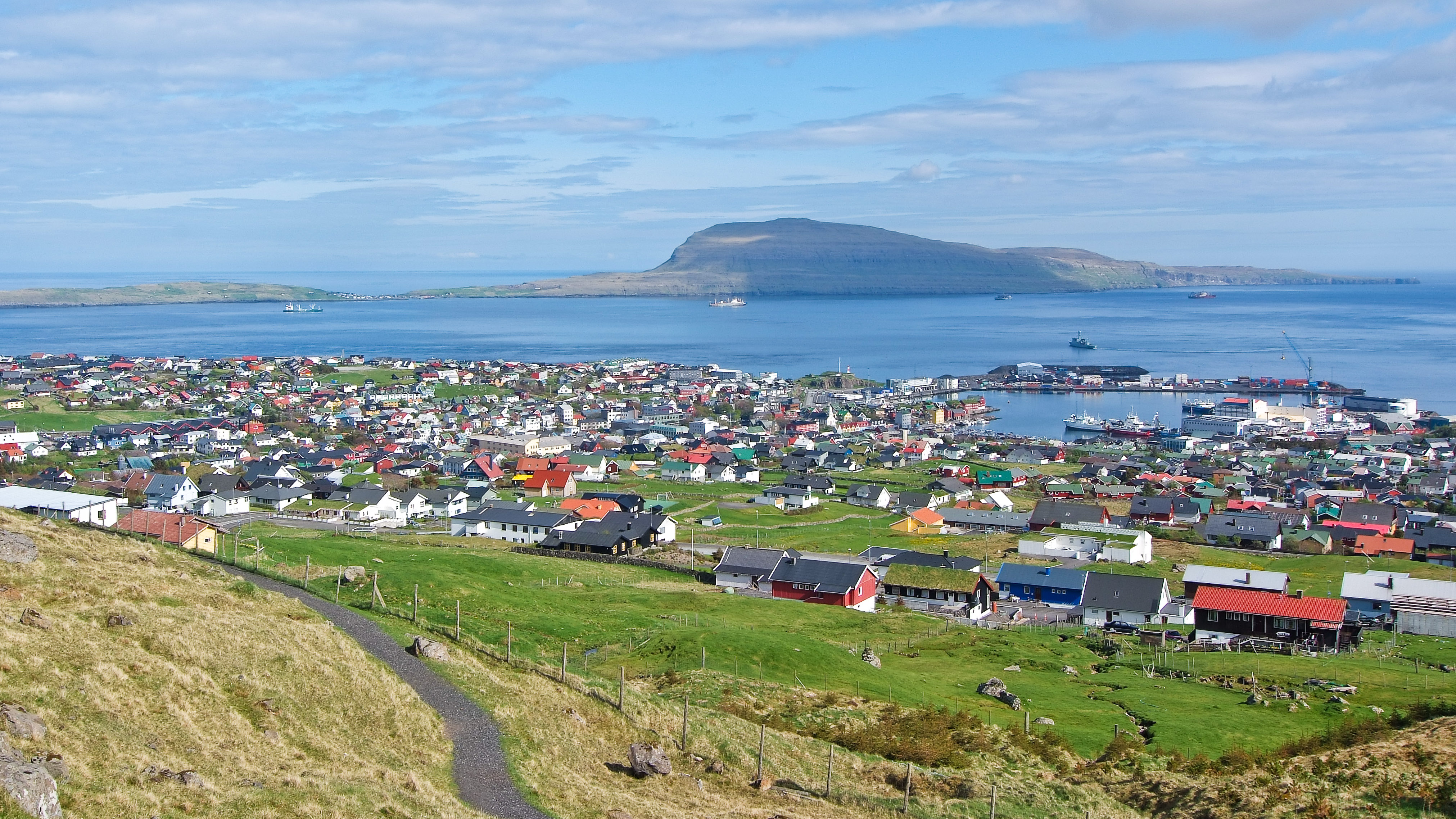 View of Tórshavn, Faroe Islands.